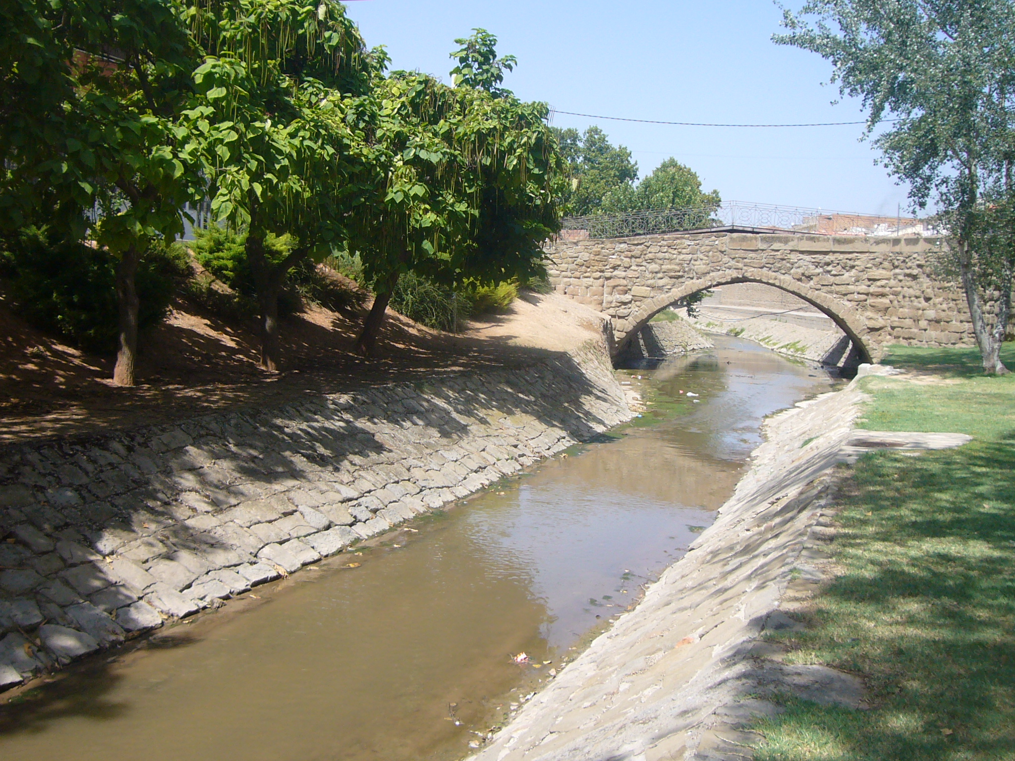 River Sió - Agramunt